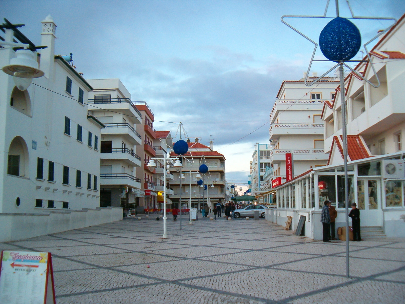 Monte Gordo (Vila Real de Santo Antonio) - center